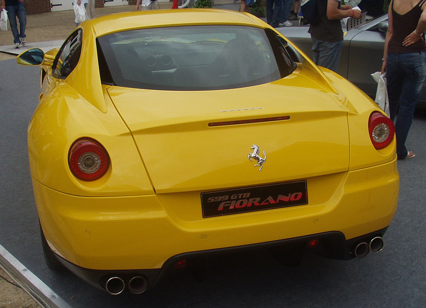 Back of 2006 Ferrari 599 GTB taken at the Goodwood Festival of Speed